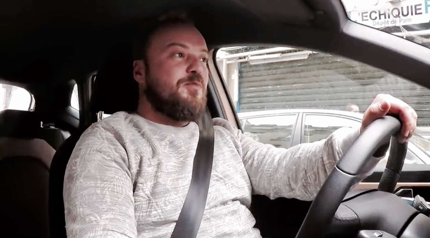 Alban Ivanov is a French comedian